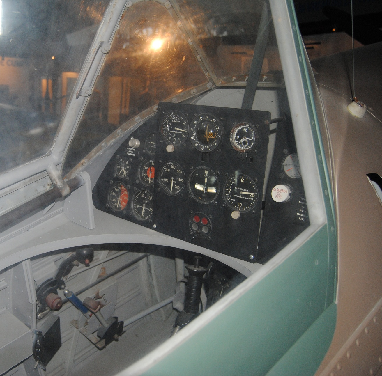 Cockpit of a IAR 80 at the Aviation Museum in Bucharest